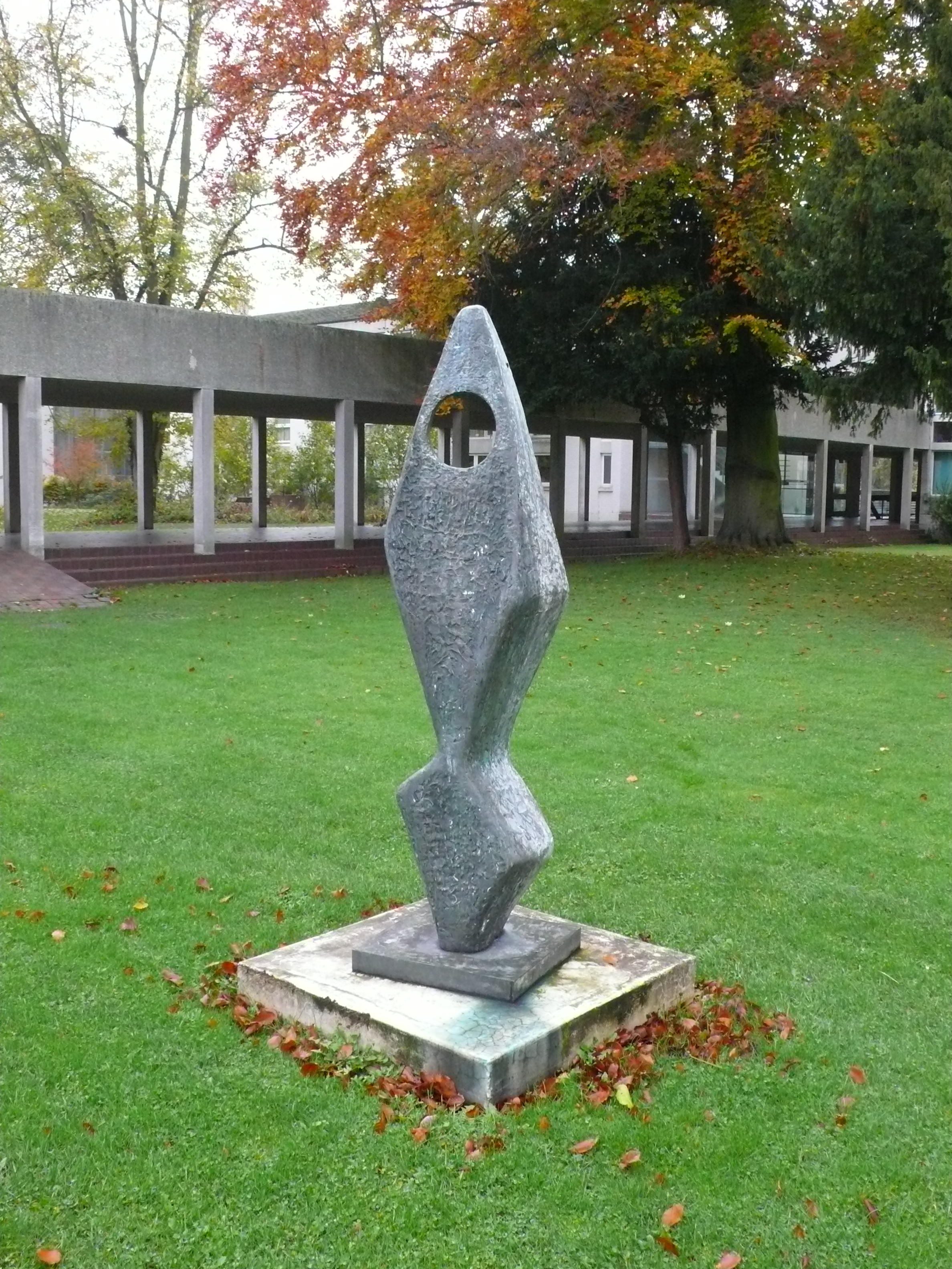 Barbara Hepworth Sculpture at Murray Edwards College in Cambridge/UK